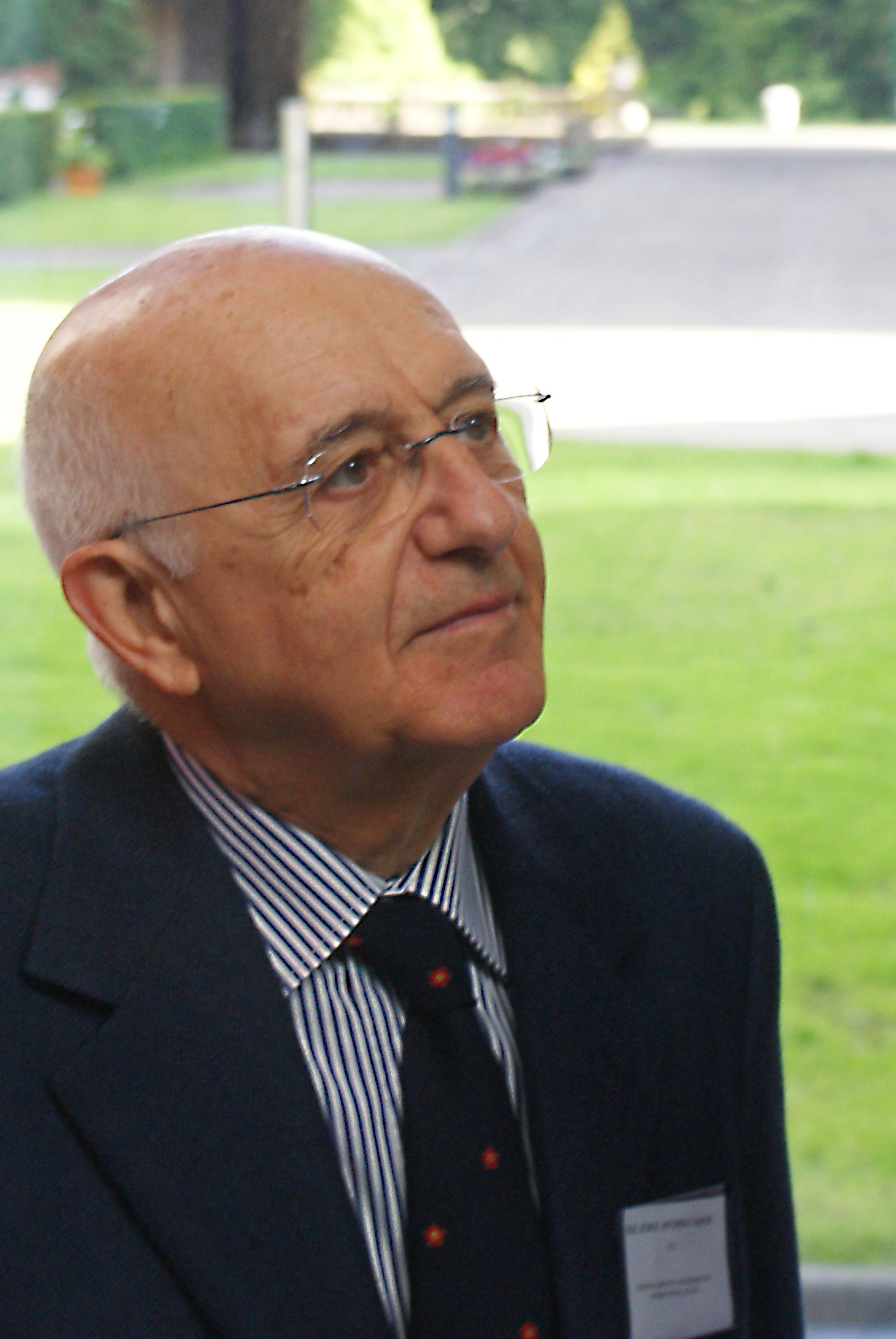 Antonio Cassese (born 1937), Italian jurist; judge (1993-2000) at the International Criminal Tribunal for the Former Yugoslavia (ICTY) and its first president (1993-1997); chairperson of the International Commission of Inquiry on Darfur (2004/2005); President for the Special Tribunal for Lebanon (since 2009)